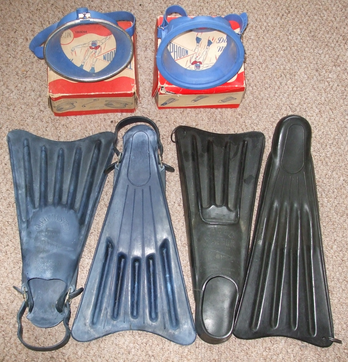 Typhoon diving masks and swim fins manufactured by E. T. Skinner & Company Ltd. during the 1950s and 1960s. Top row: Super Star diving mask with metal rim (left); Blue Star diving mask without metal rim (right). Bottom row: Clubmaster adjustable open-heel fins with extended heelplate (left); Speedmaster closed-heel fins with open toes; both models feature patented Typhoon fluted swimfin blade.